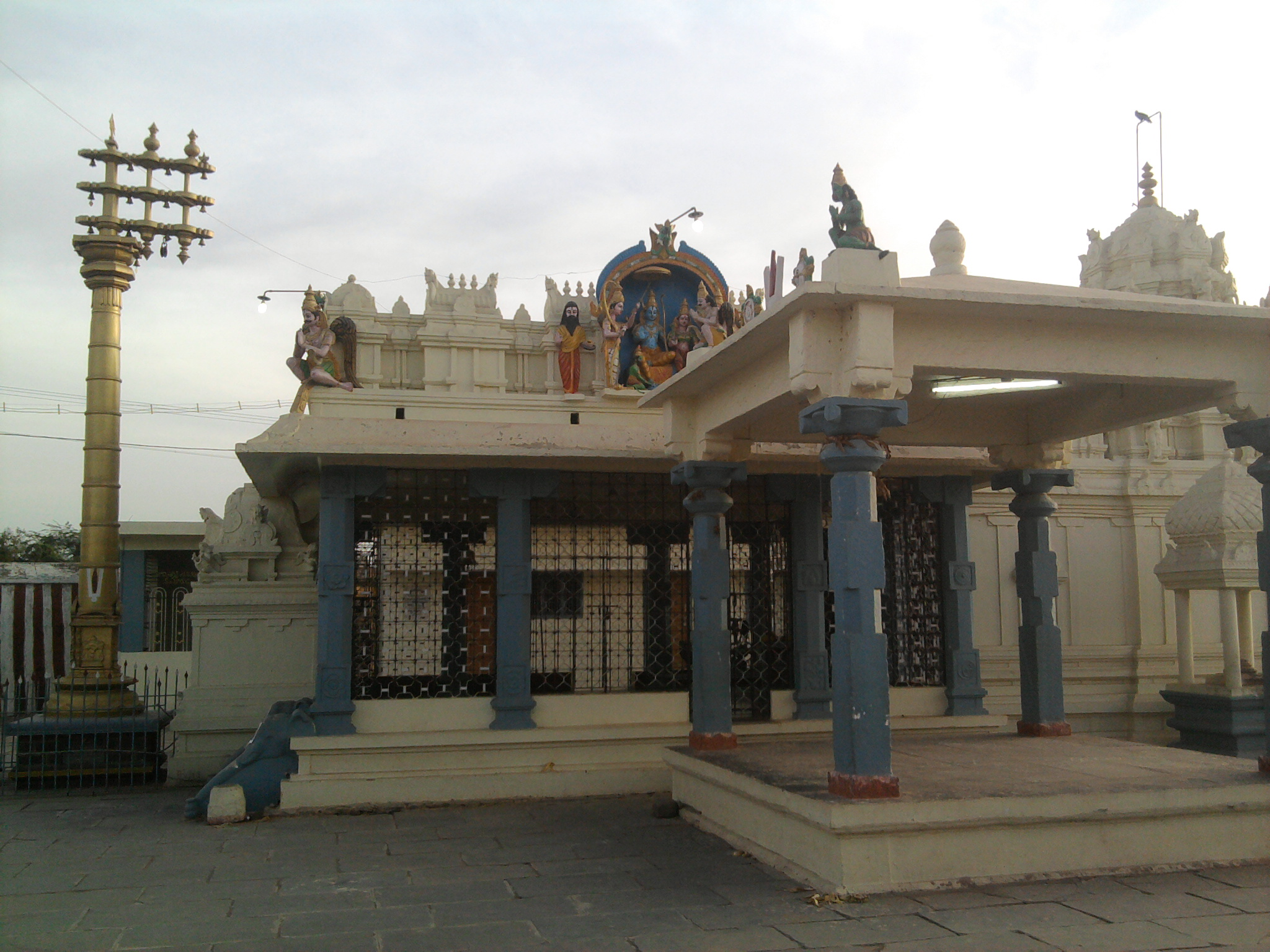 Sri Chennakesava Swami Temple, Vinjamur